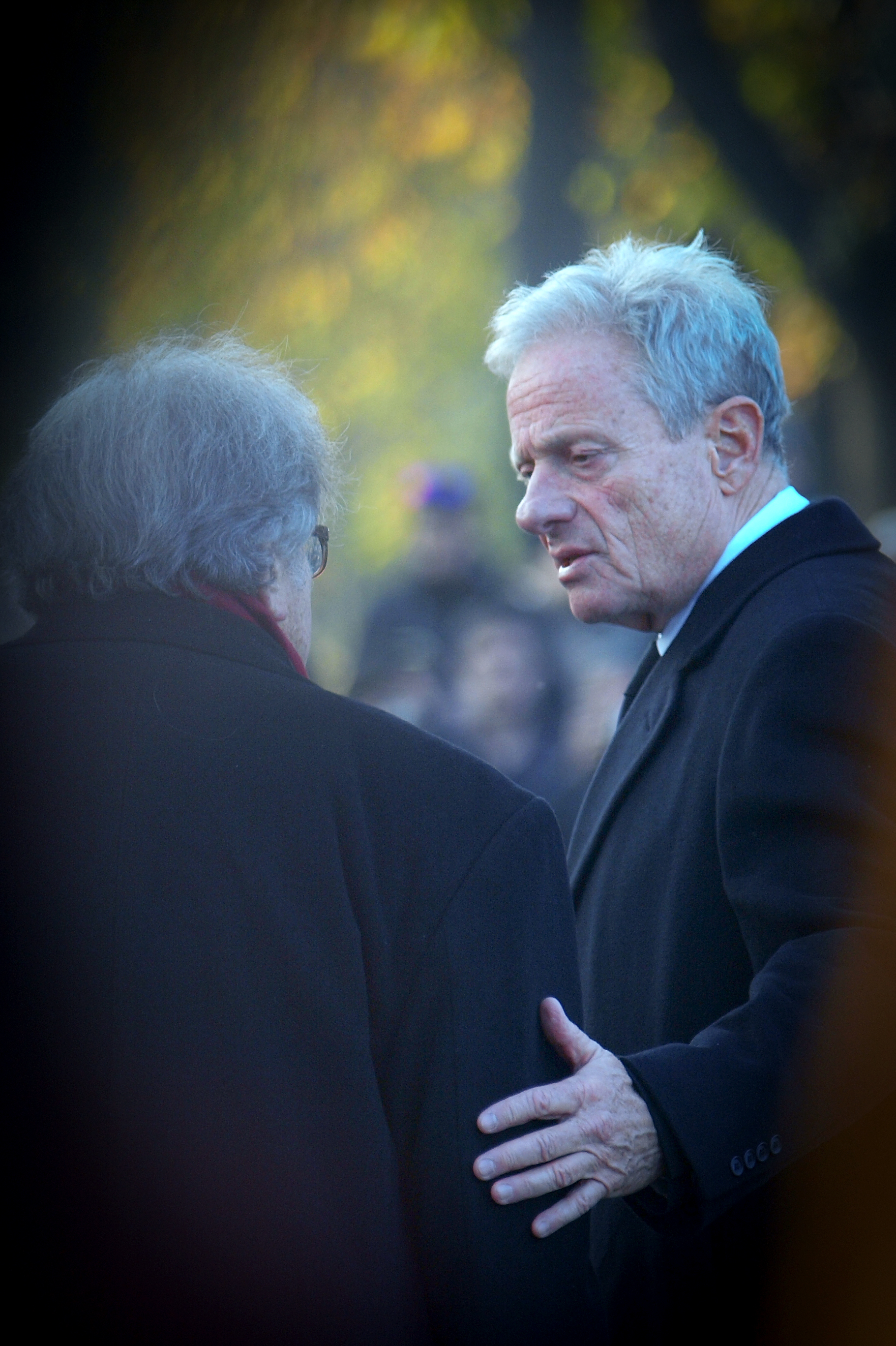 Funeral of Árpád Göncz